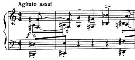 Beginning of the Petrarch's Sonnet 104 by Franz Liszt.